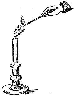 Fig. 2